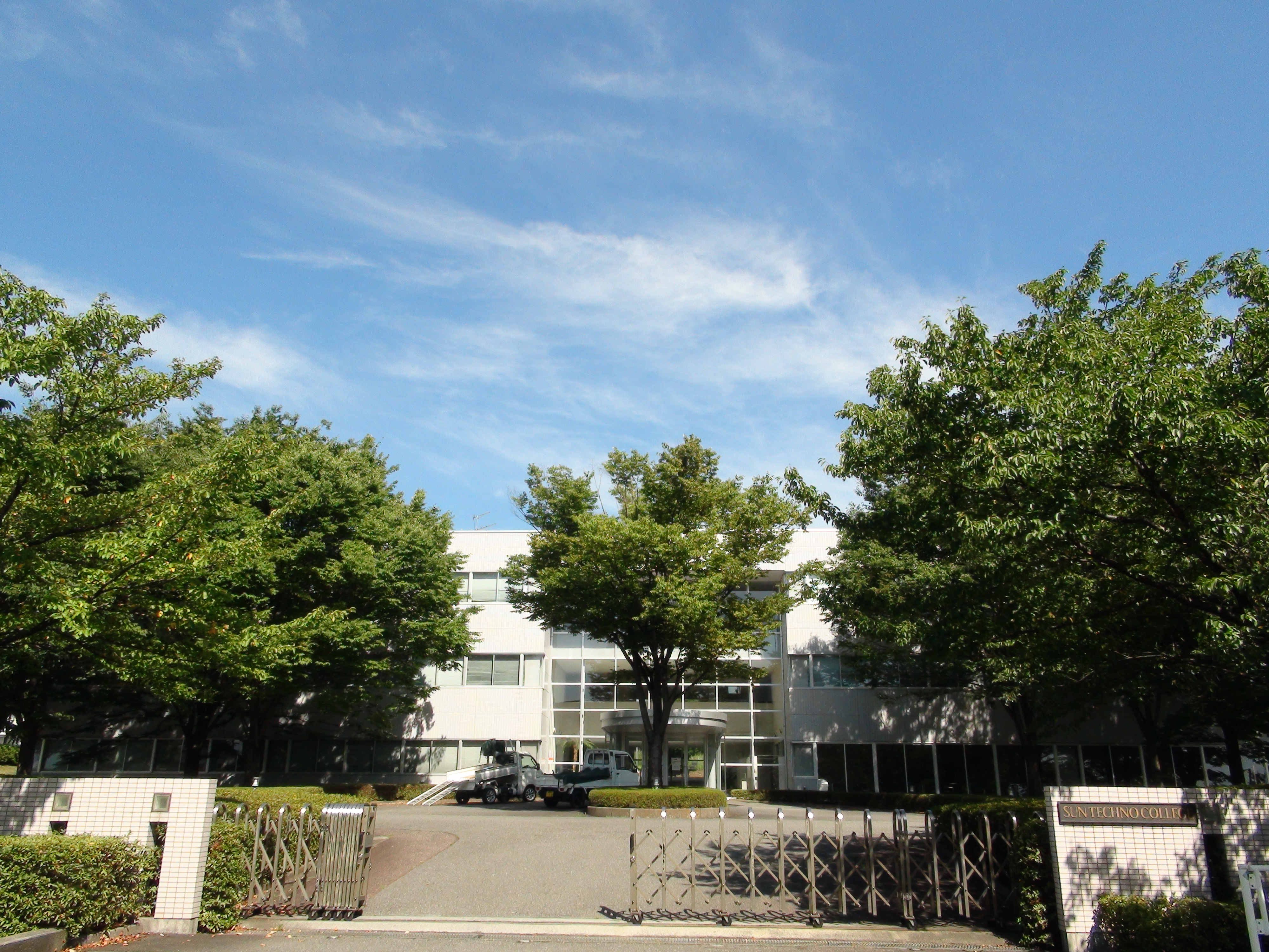 SUN Techno College Kai City